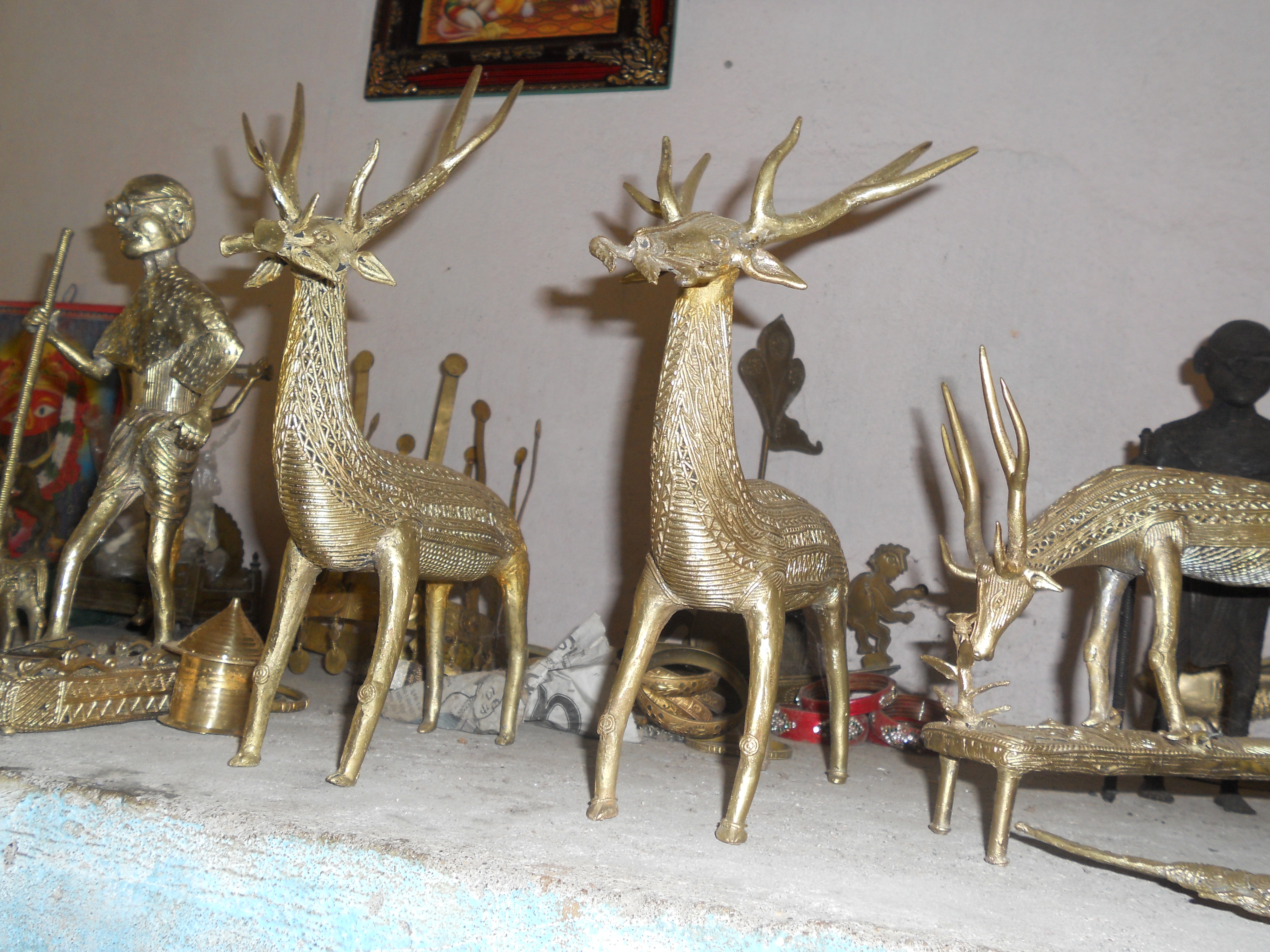 Dokra handicraft of Barakhama,Balliguda blok, Kandhamal district, Orissa